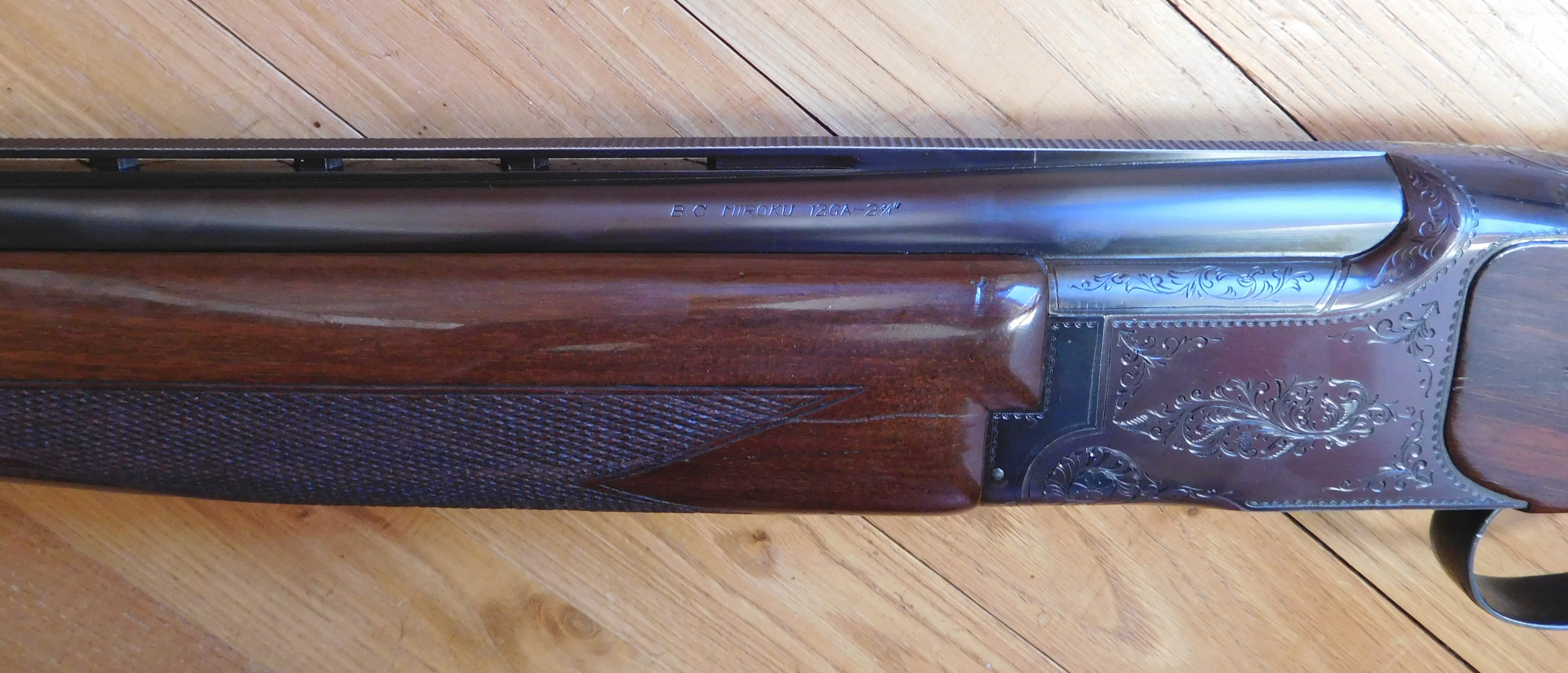 Miroku O/U Model 3700, 12ga.